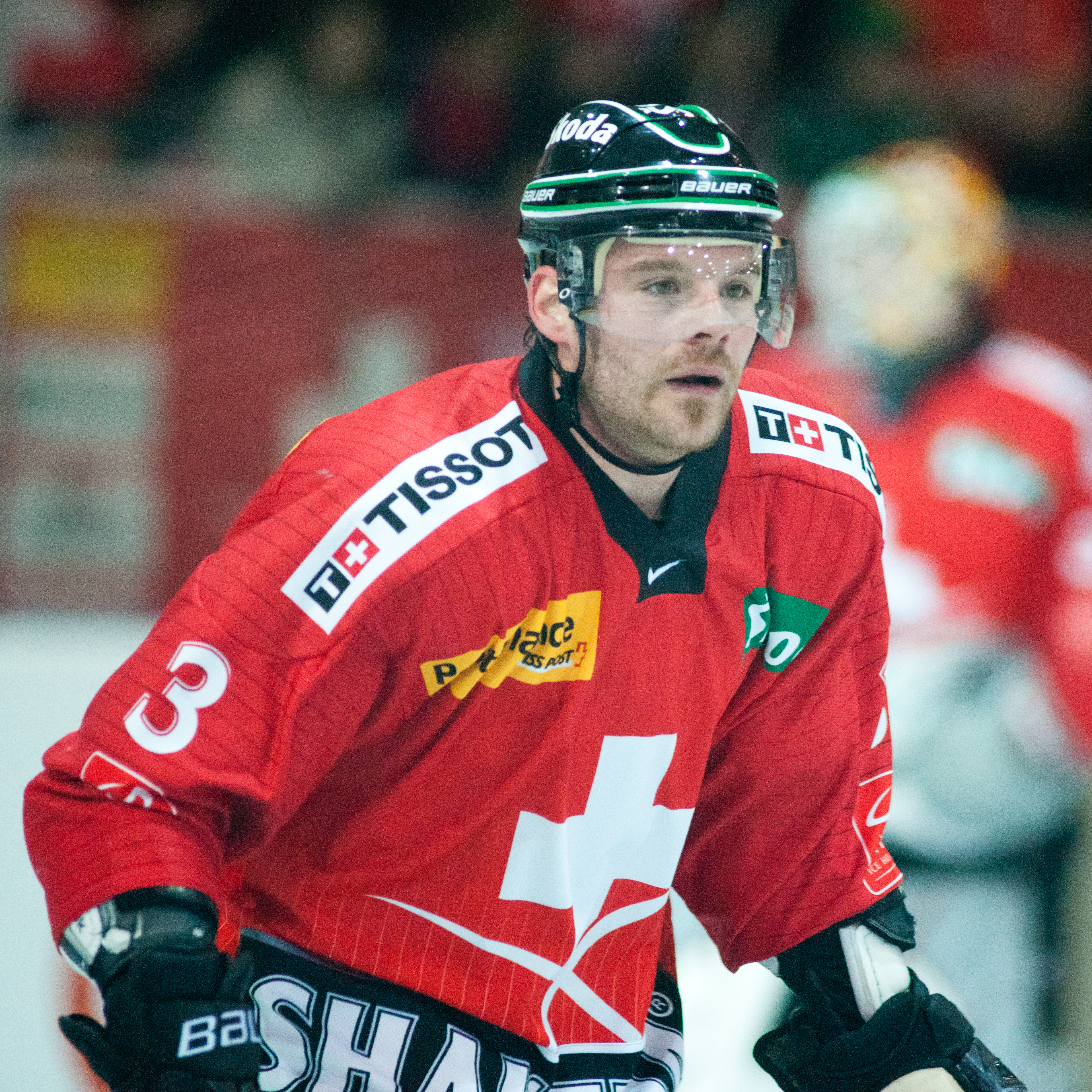 The making of this document was supported by Wikimedia CH. (Submit your project!) For all the files concerned, please see the category Supported by Wikimedia CH. Switzerland vs. Russia, 8th April 2011